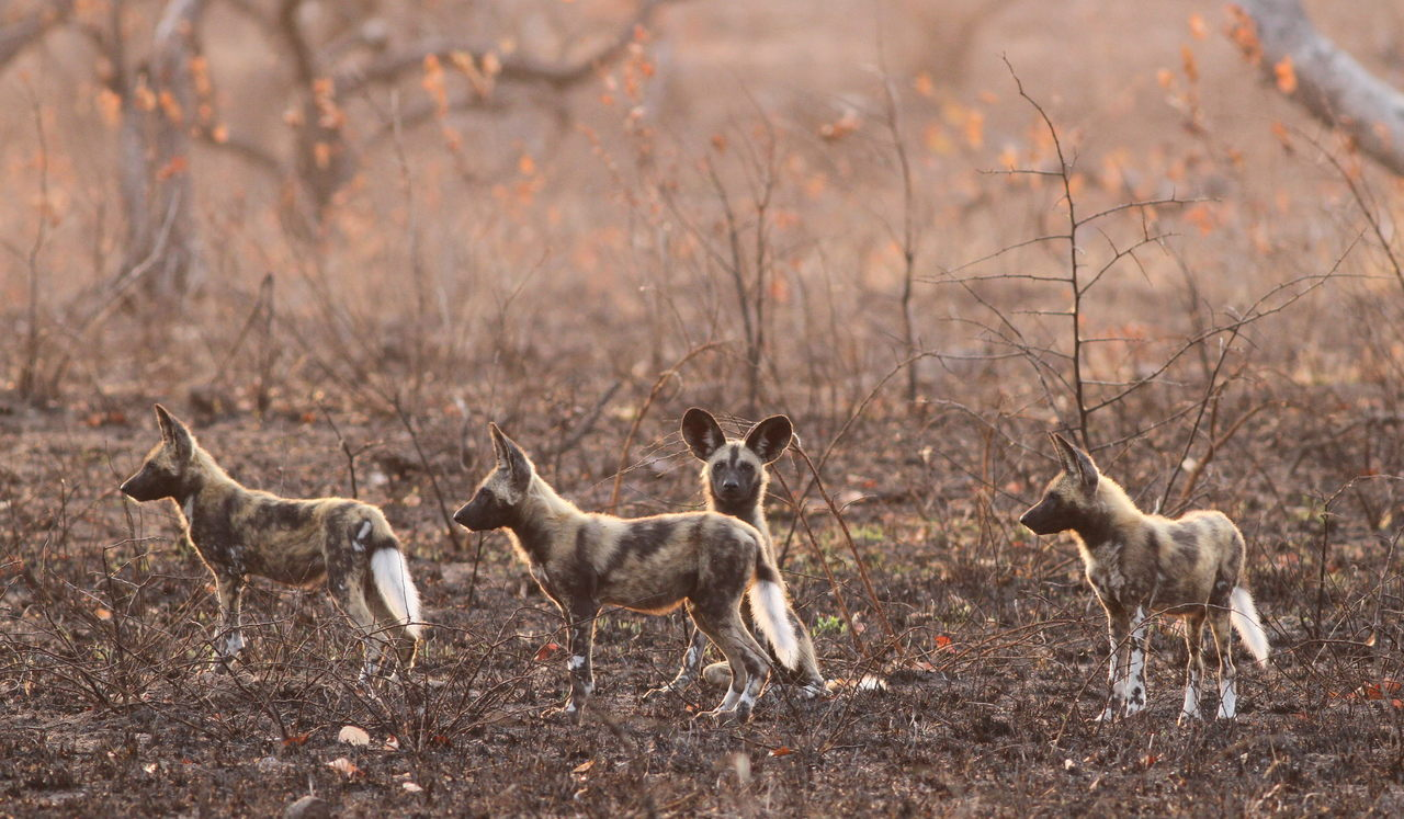 African wild dog, Lycaon pictus (young) at uMkhuze Game Reserve, kwaZulu-Natal, South Africa